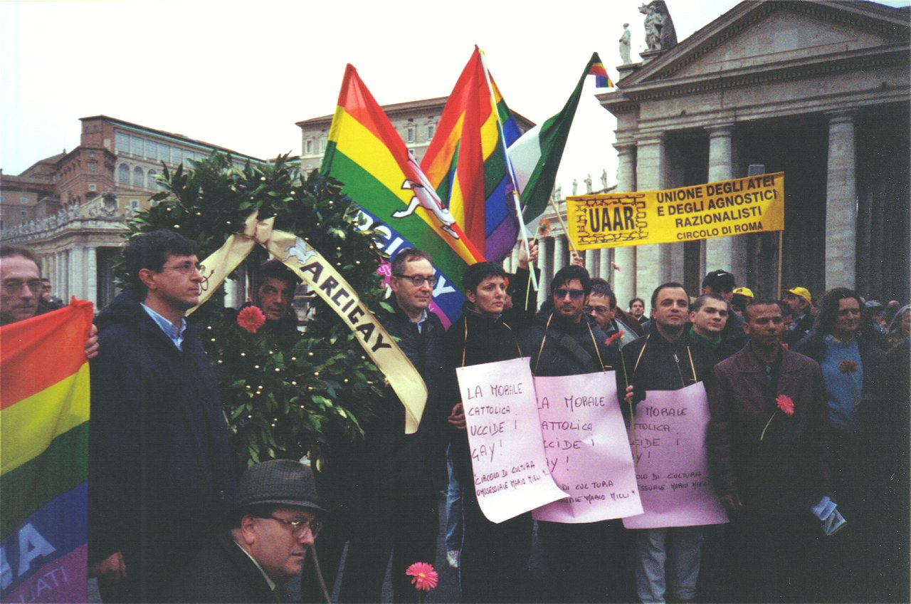 The 1st sit-in in memory of the gay writer and poet Alfredo Ormando in front of St. Peter Square. 2nd from left is Sergio Lo Giudice; at the centre Franco Grillini and Imma Battaglia. The photograph was originally taken on a Kodacolor ISO 400 film.